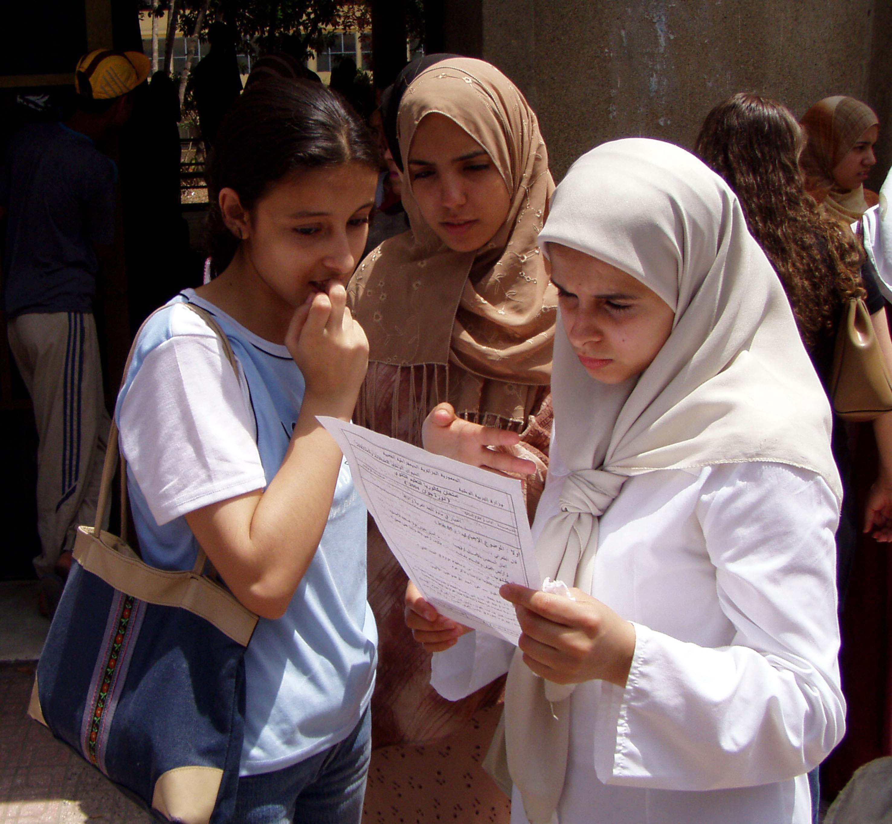 Algerian baccalaureate students cram before an examination.